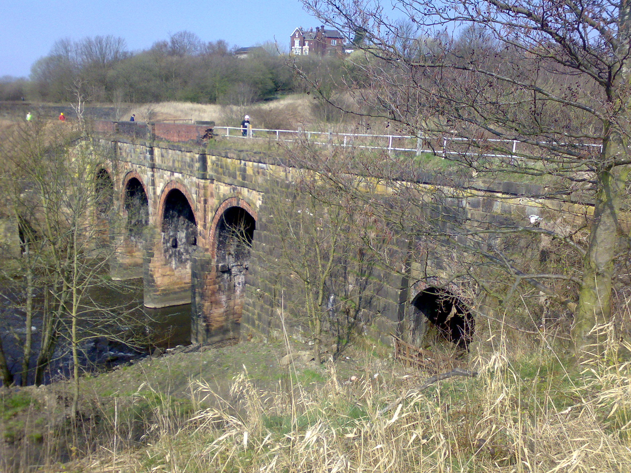 Tom Jeffs, taken on my cameraphone during Spring 2007, while working on canal bank restoration with the local society. You can make out some of the members walking across the aqueduct. The house at the top of the image overlooks the canal as it passes Nob End (where the canal is currently breached) and heads toward Bolton.